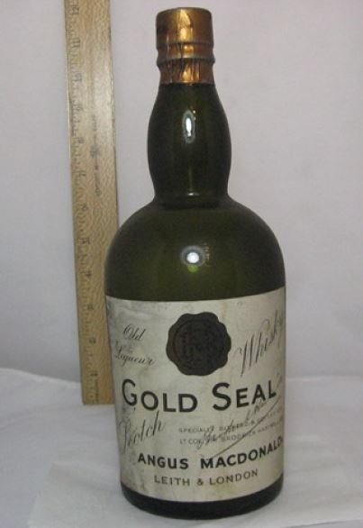 Bottle of Sir Brodrick's whiskey sold to USA bootleggers during prohibition years. Found under floor boards and now in possession of collector.